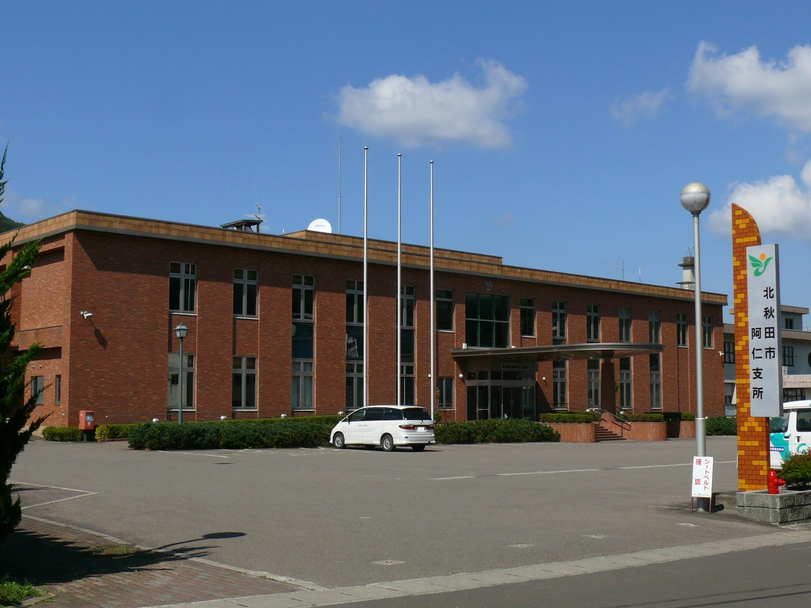 Kitaakita cityKitaakita city Ani office.（Akita,Japan）